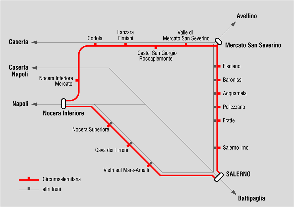 "Circumsalernitana" railway service as of its beginning (1997)